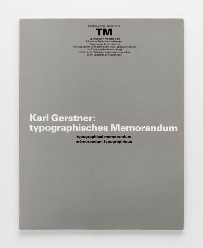 Cover of Swiss typographic magazine "Typografische Monatsblätter", issue 2/1972 (February 1972). Special issue dedicated to the work of Karl Gerstner. Cover design by Karl Gerstner. Item Nr L TMTM 72-2 in the collection of Museum für Gestaltung Zürich.